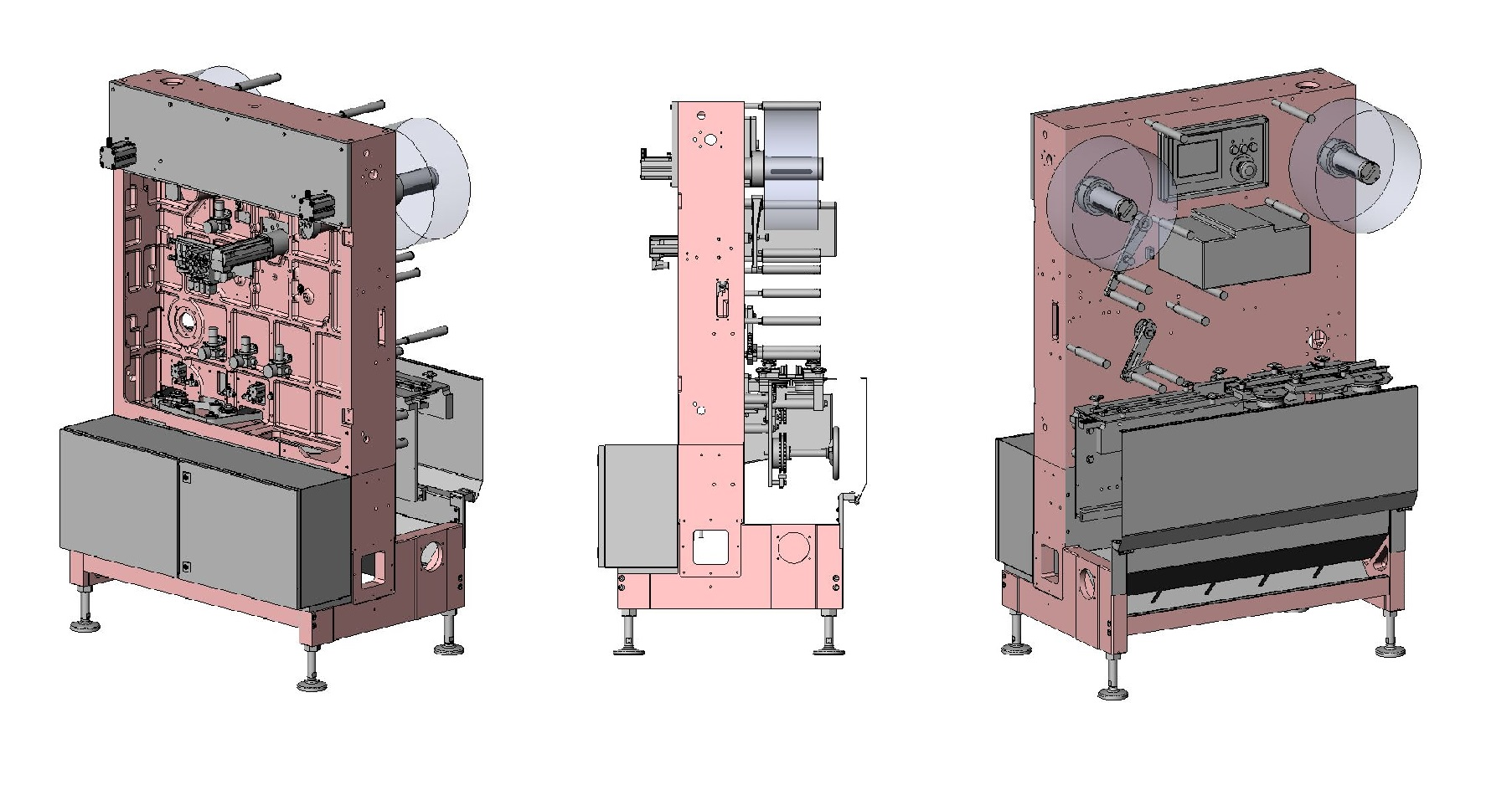 Frame of tubular bag machine.